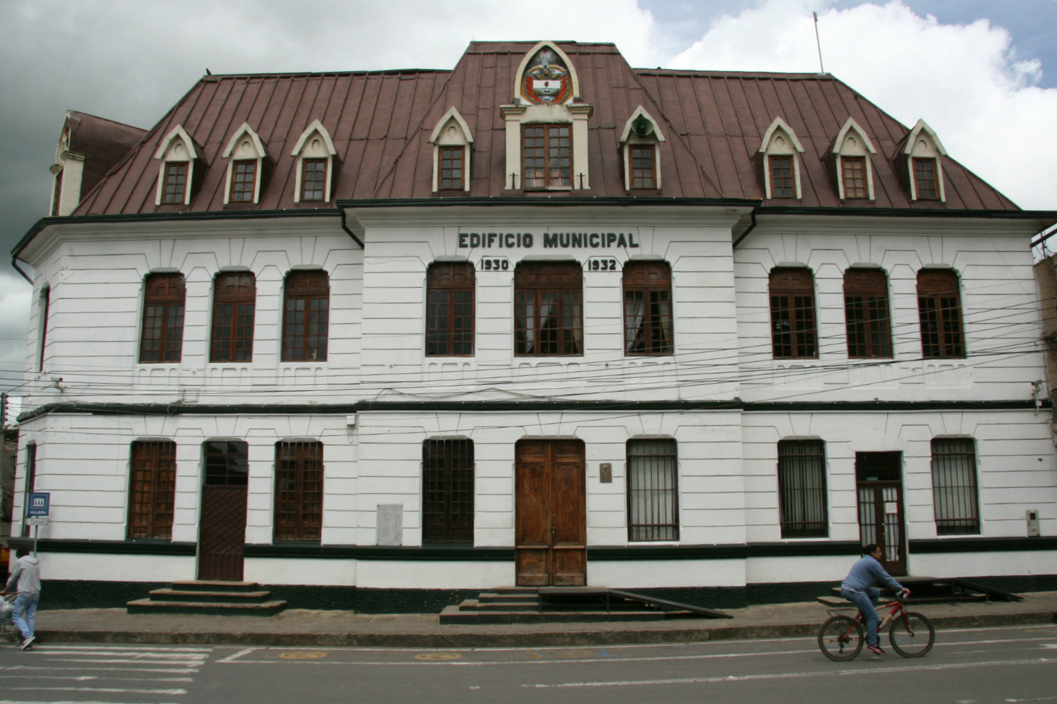 Tenjo Municipal Building